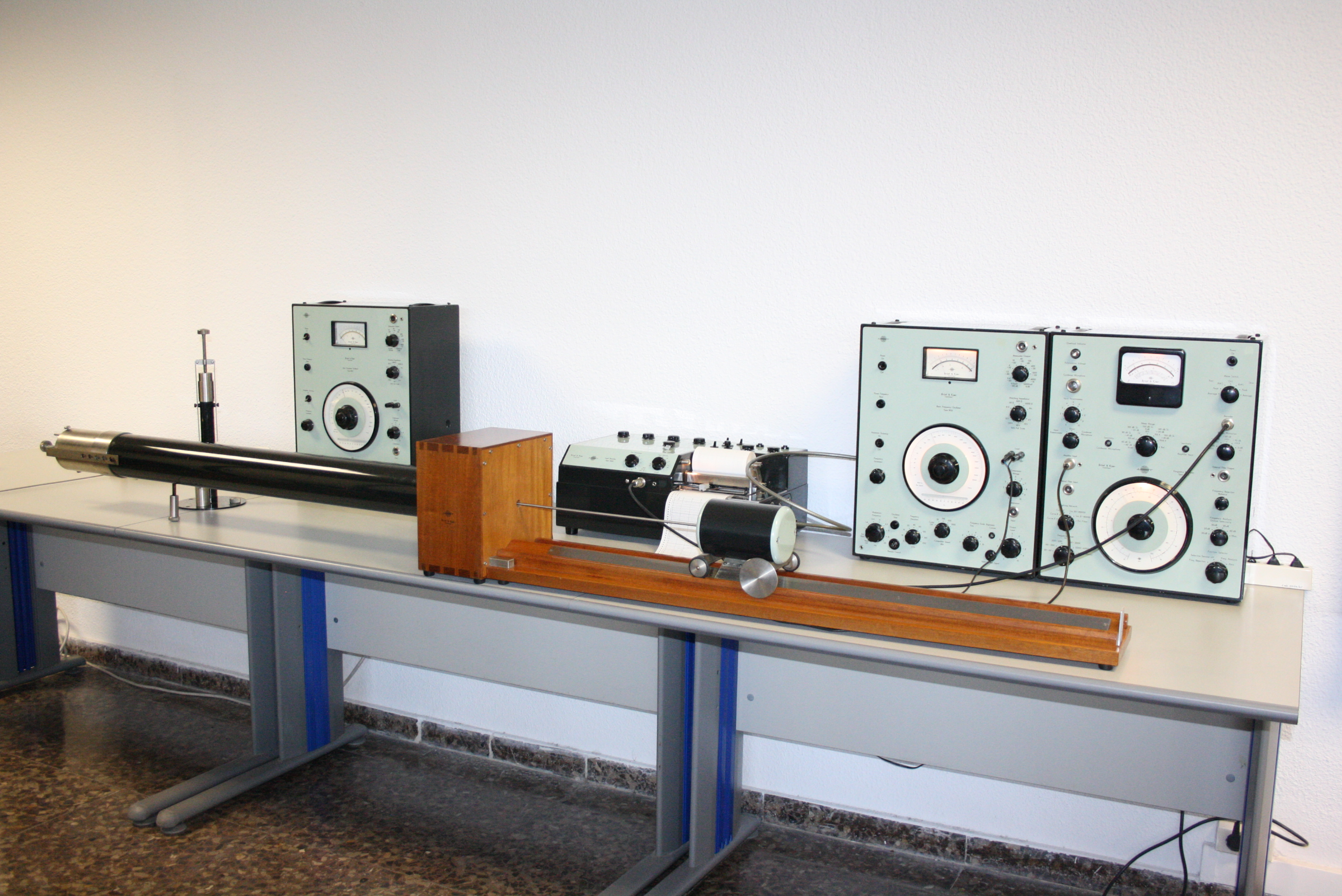 A Kundt's tube experiment. Acoustic standing waves are excited in the tube by sound waves produced by a speaker driven by a sine wave produced by the signal generator. From ETSIT-acquired by UPM in 1965. The main use of this device is the study of the acoustic impedance of various materials. For more information hover over each picture element.